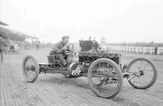 Full-length portrait of Carl G. Fisher, driver, sitting in car on the track at Harlem Race Track (formerly Harlem Jockey Club) located near Roosevelt Road and Hannah Avenue in Forest Park (formerly the Village of Harlem), Illinois. Other racing cars, drivers, and spectators are visible in the background.